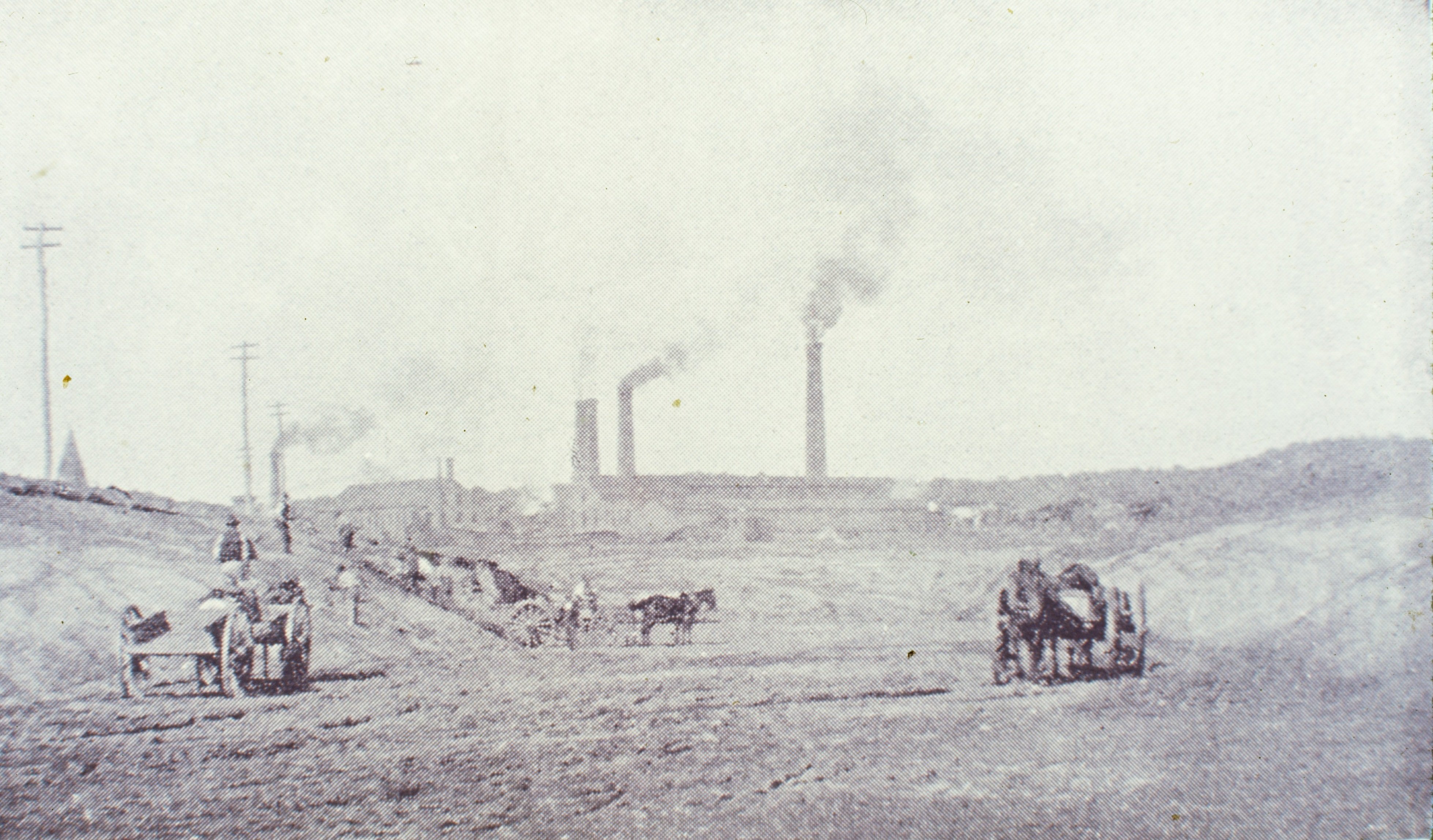 The initial phase of construction of the Holyoke Canal System, featuring several early factories in the background.